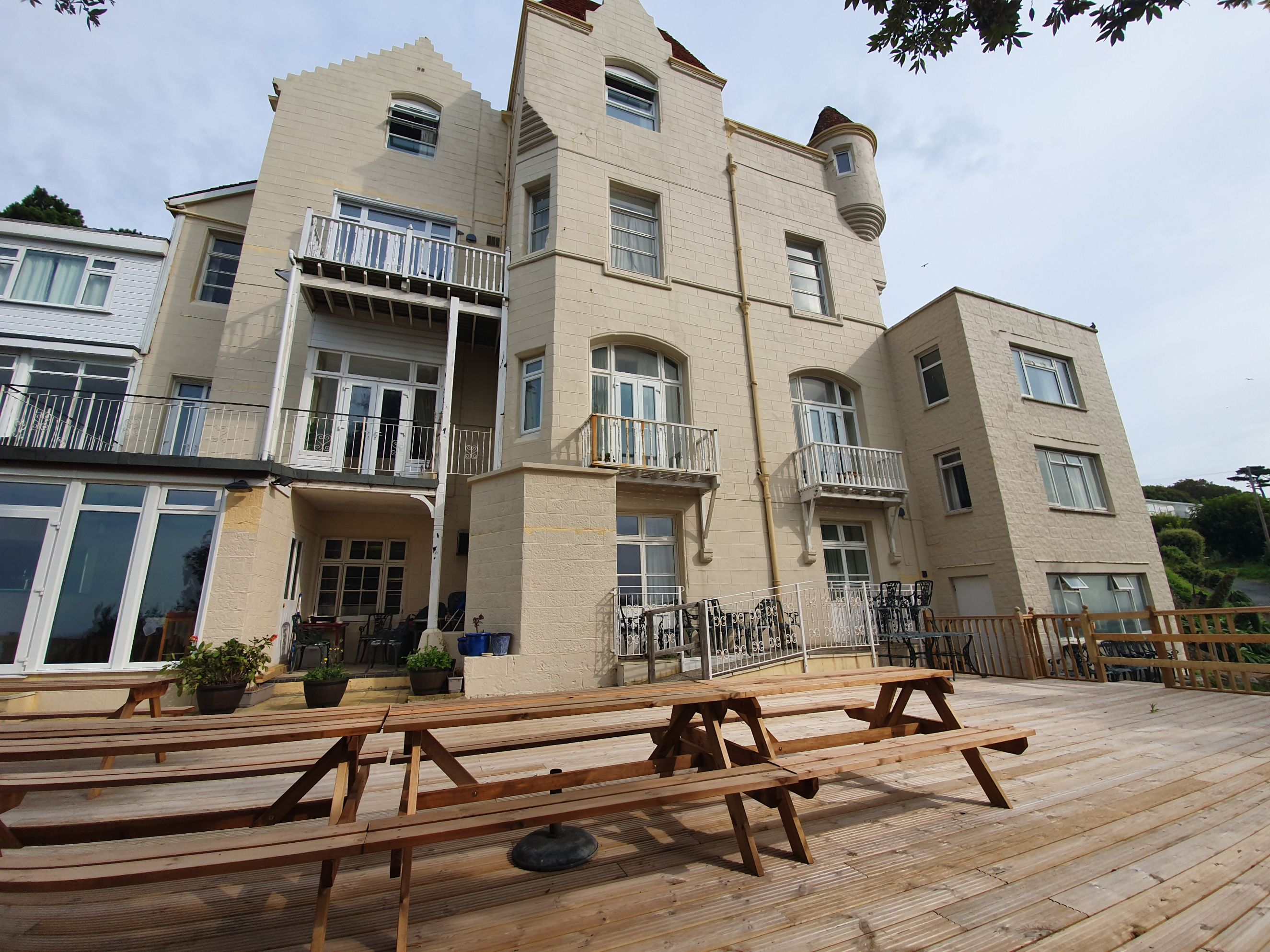 Photo of the hotel building as seen from the outdoor seating area